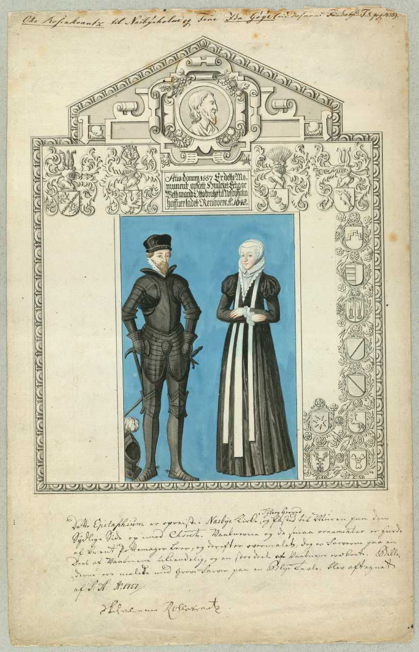 Dette Epitaphium er opreist i Næsbye Kirke i Tyberg Herred, og fæsted til Muren paa den Sydlige Side op imod choret. Vaabnene og de smaa ornamenter er giorde af brent Pottemager Leer, og derefter overmalet. Dog er Farverne paa en Deel af Vaabnene ukiendelig, og en stor Deel af Vabnene ere borte. Billederne ere malede med grove Farver paa en Blye Tavle. blev aftegnet af S: A: Ao 1757. 25 x 38 cm.